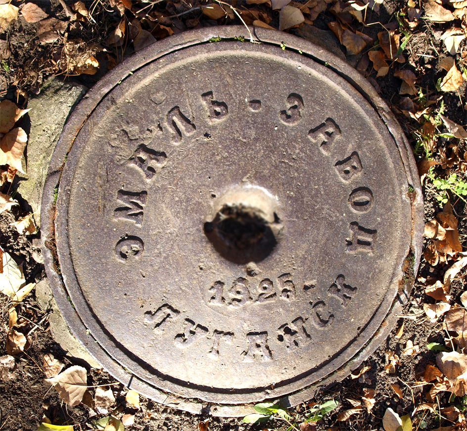 Luke enamel factory in 1925.